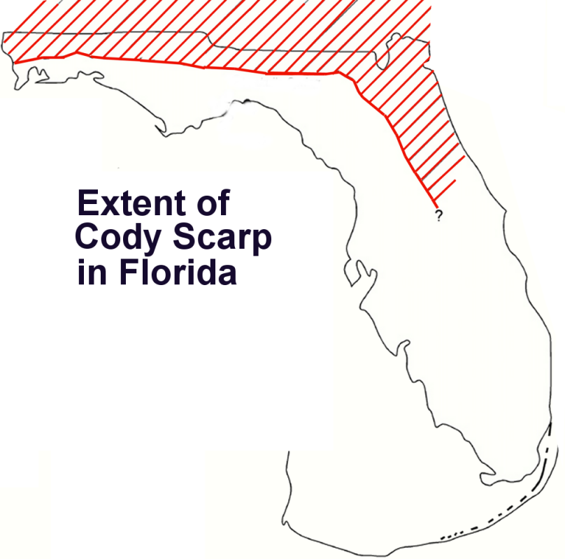 Florida map showing extent of Cody Scarp